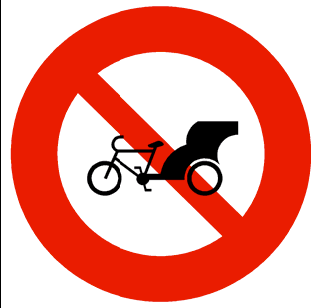 Taiwanese Prohibitory Sign P9: No Pedicabs